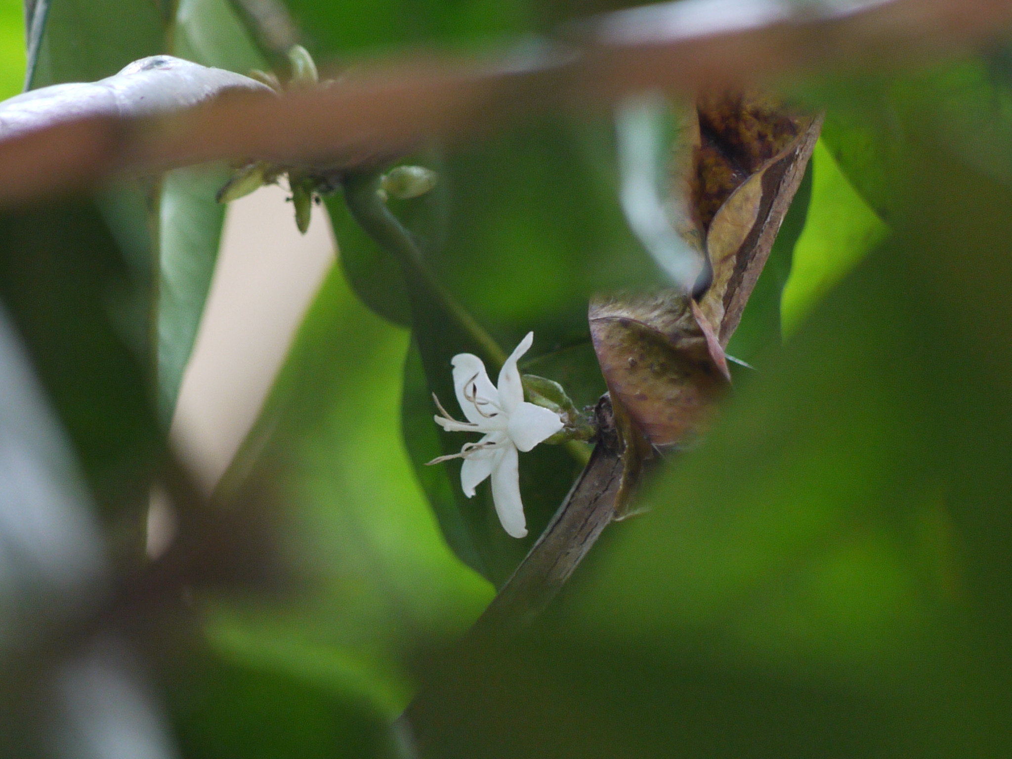 Rubiaceae (madder, bedstraw, or coffee family) » Coffea liberica KOFF-ee-uh -- from Turkish kahve, in turn from Arabic qahwa ly-BER-ee-kuh -- of or from Liberia (West Africa) commonly known as: coffee, Liberian coffee • Arabic: بن bun, قہوة qahwat • Assamese: কফি kaphi • Bengali: কফি kaphi • Gujarati: કૉફી kophi • Hindi: काफ़ी kafi, कॉफी kophi • Kannada: ಕಾಫಿ kaaphi • Kashmiri: कह्व kahwa • Konkani: कॉफि kawphi • Malayalam: കാപ്പിച്ചെടി kaappicceti • Manipuri: kophi • Marathi: कवा kava, कॉफि kophi • Mizo: kaw-fi • Nepali: कहुवा kahuwa, काफि kaphi • Persian: قہوه qahwa • Tamil: காபி kapi • Telugu: కాఫీ kaaphii Native of: west coast of Africa; cultivated elsewhere References: Wikipedia • NPGS / GRIN • Old and Sold